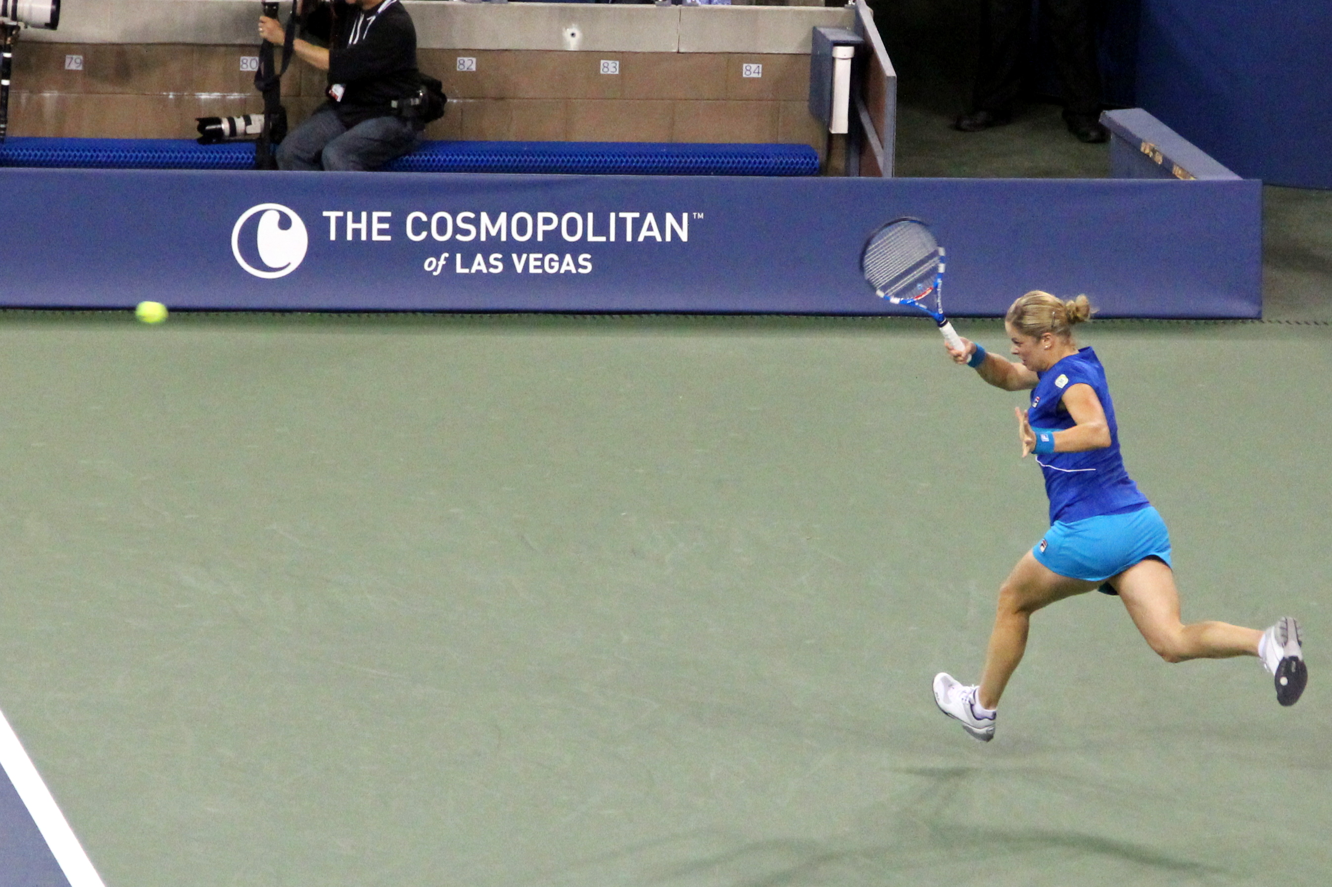 Clijsters vs. Stosur match on Tuesday night, 9/7 at the US Open. The Cosmopolitan is in New York for the 2010 US Open, inviting attendees and guests to experience signature views from our Overlook and in our custom designed suite with prime-stadium seating. For more information on The Cosmopolitan visit